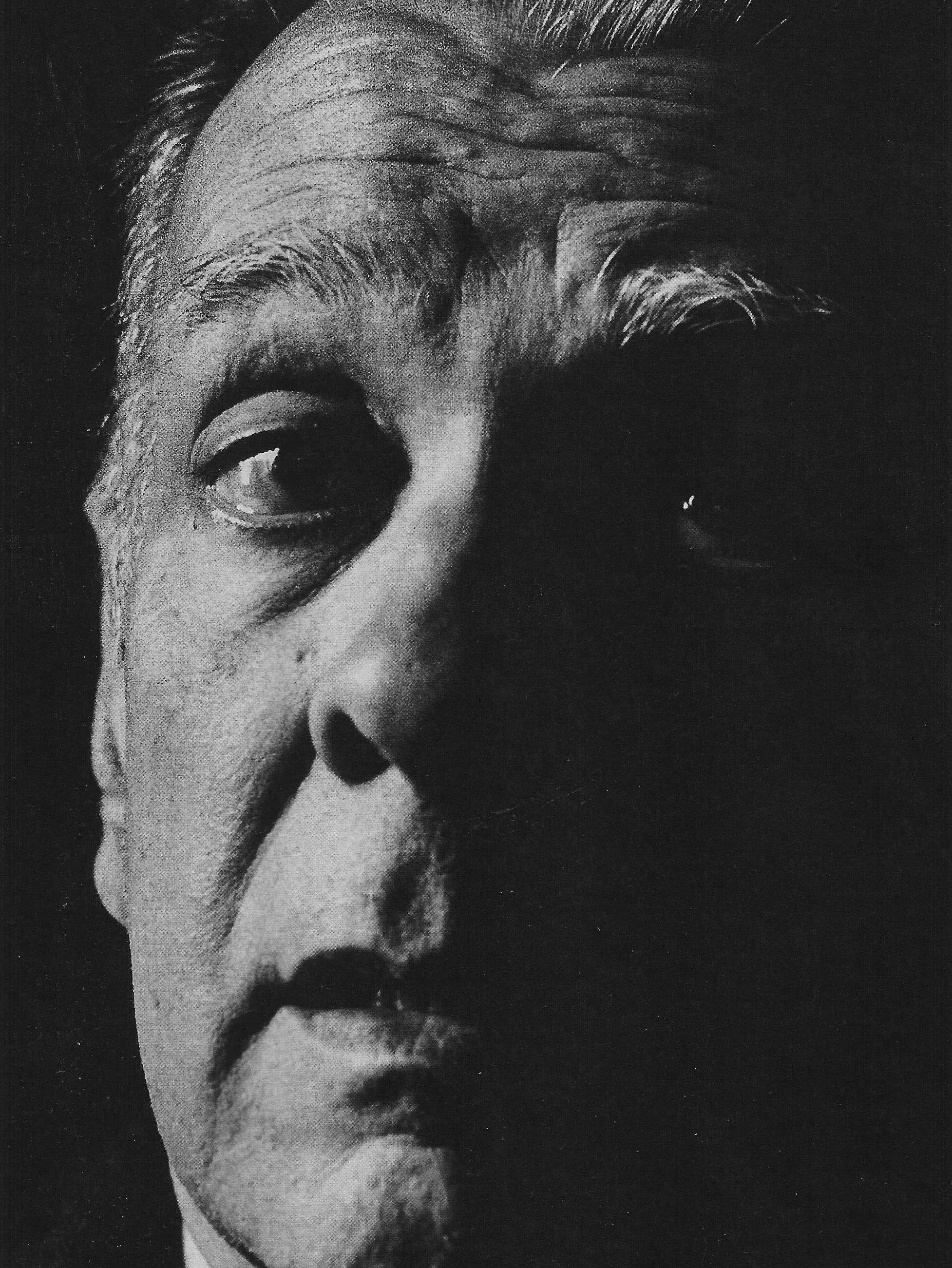 Jorge Luis Borges photographed by Sara Facio at the National Library of Argentina, in 1968. Borges was the director of that public institution by then.